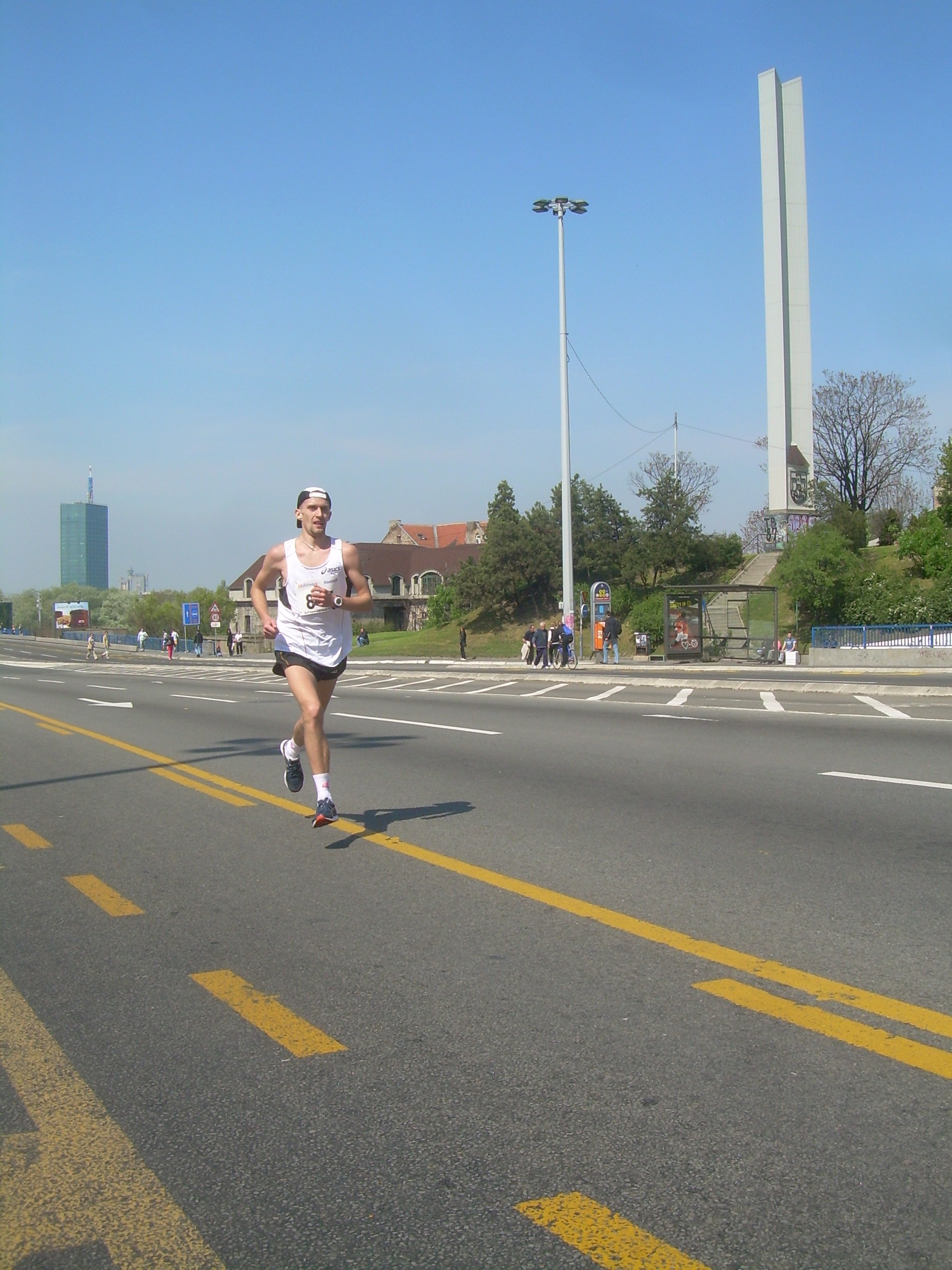 Stsiapan Rahautsou, a long-distance runner from Belarus at Belgrade Marathon.